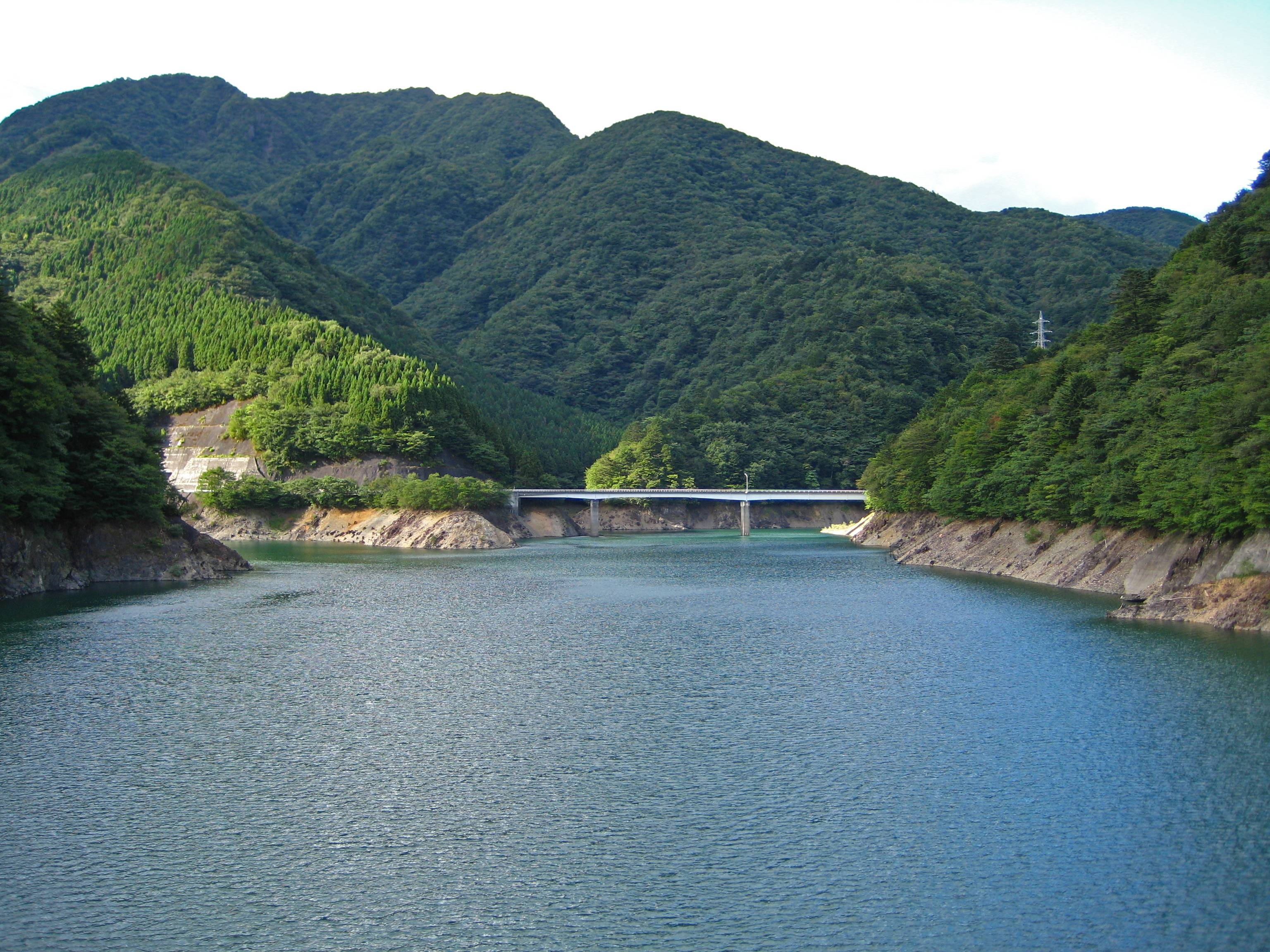 Imaichi Dam lake.